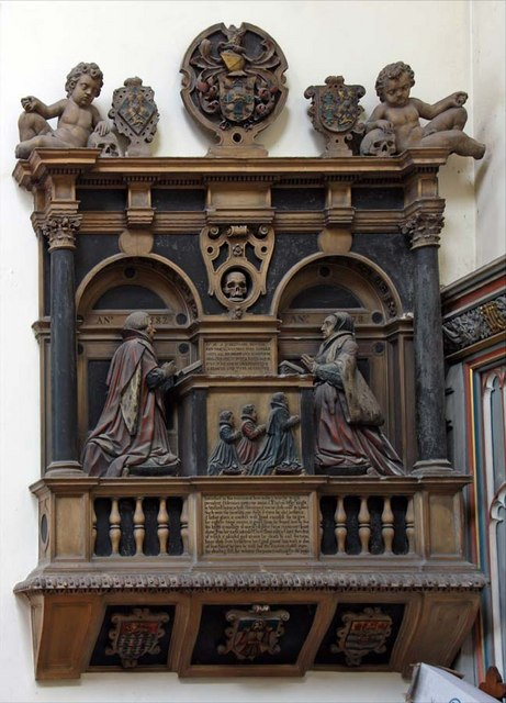 St Andrew Undershaft, St Mary Axe, EC2 - Wall monument to Sir Thomas and Dame Joan Offley in the church of St Andrew Undershaft, 1582.